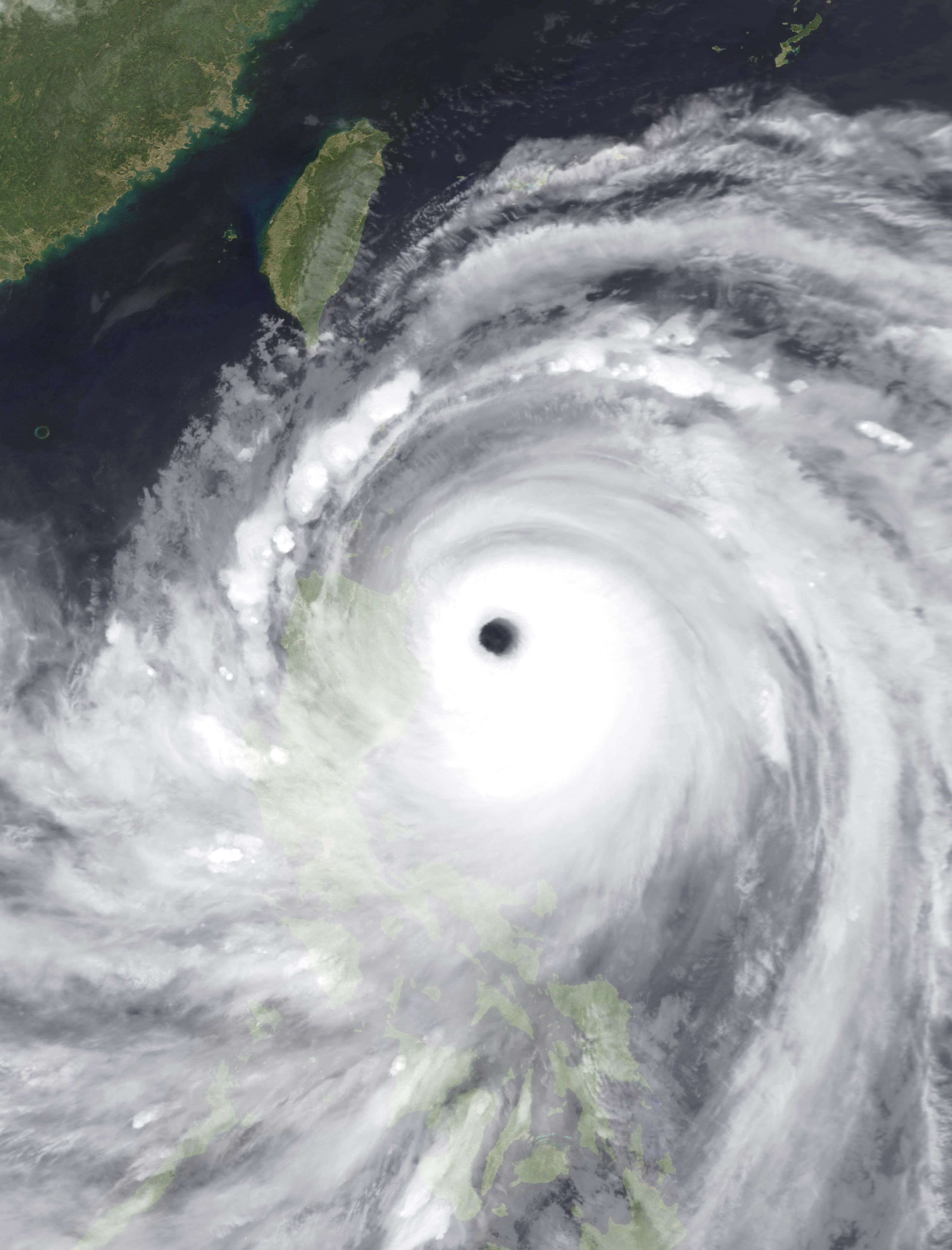 Typhoon Mangkhut on September 14, 2018